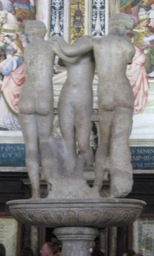 Piccolomini Library in Siena Cathedral